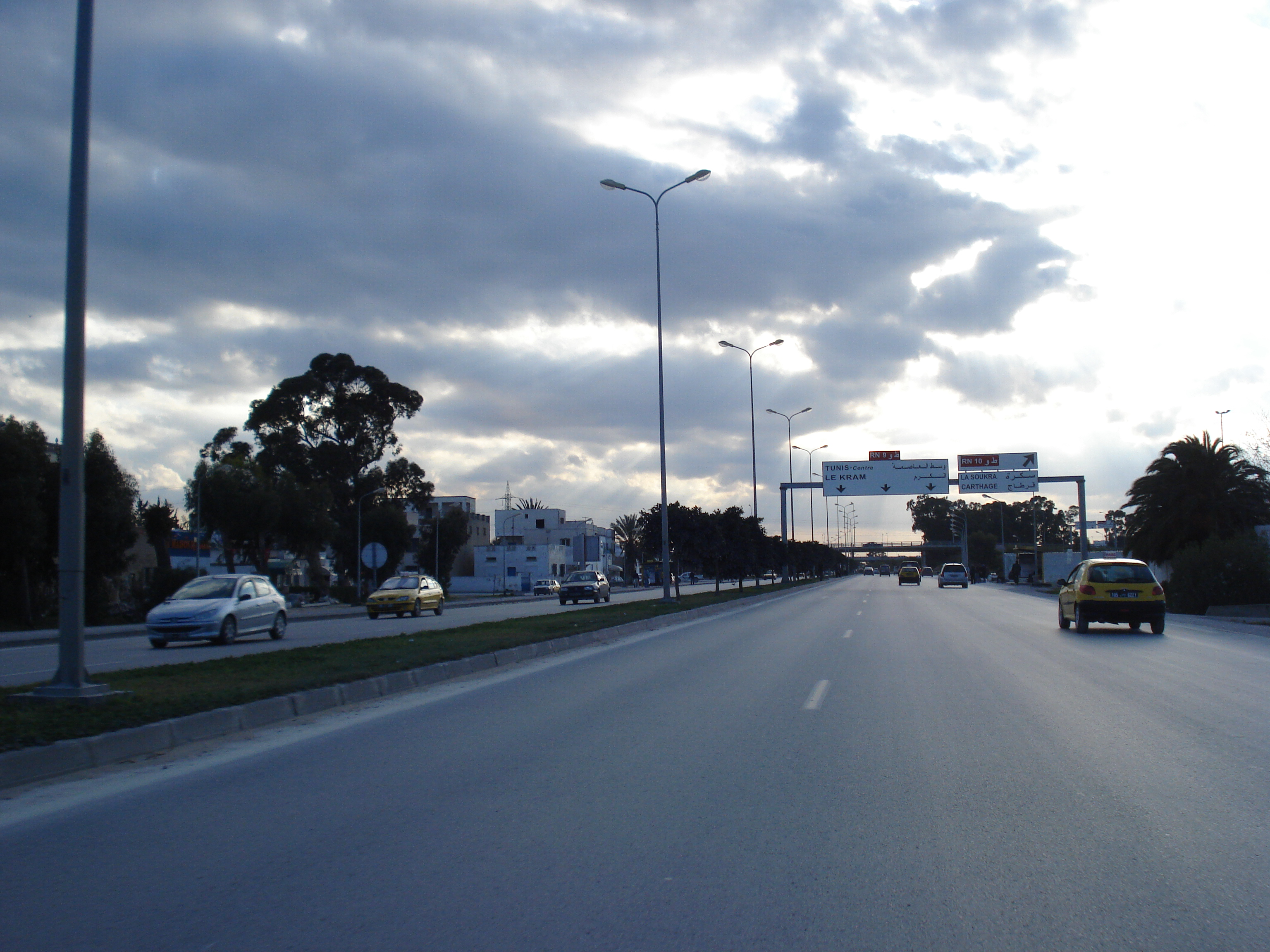 RN 9: Tunis-La Marsa, Tunisia